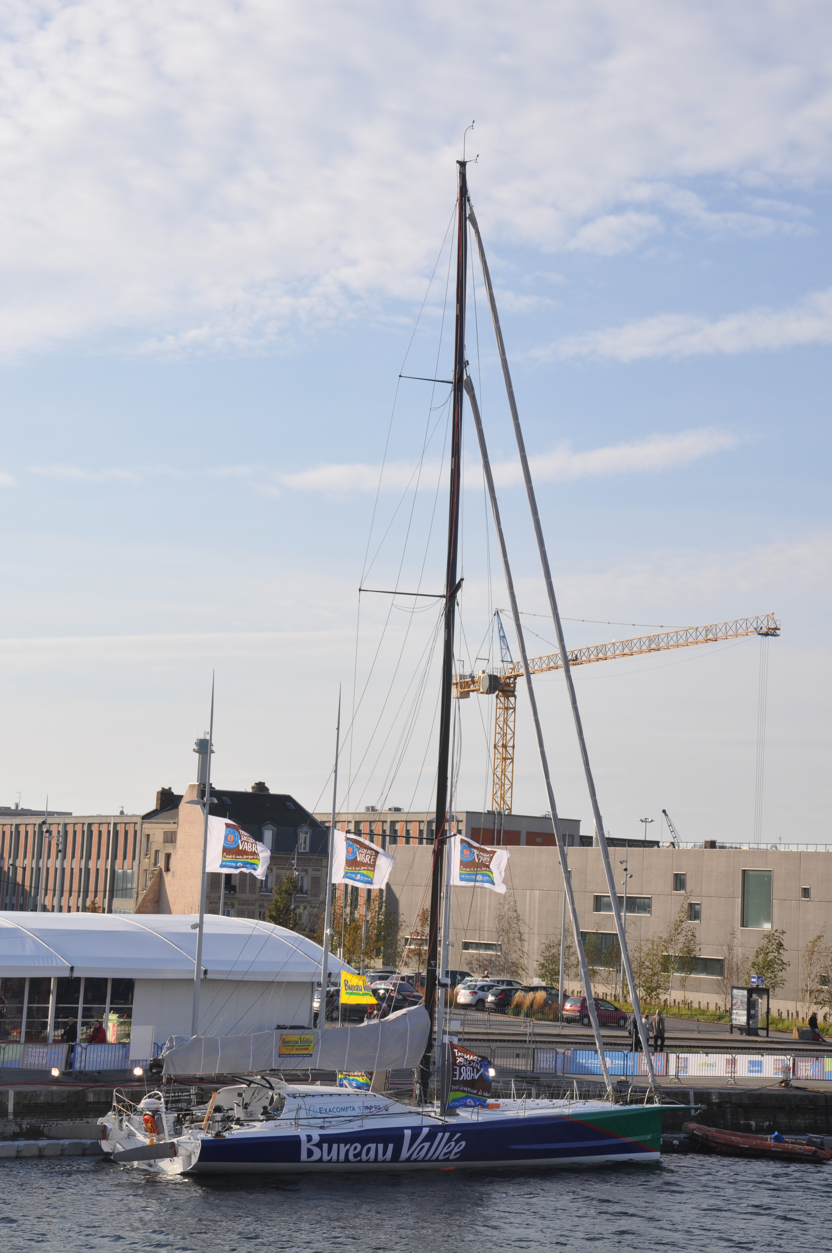 Le Havre (France, Normandy), ship Bureau Vallée